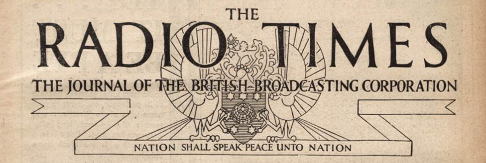 Front cover of the Radio Times, 25 December 1931